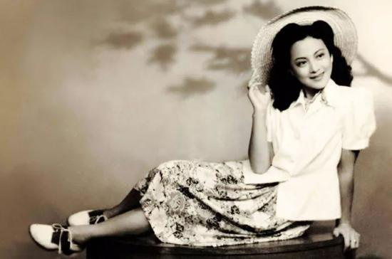 Chinese actress Wang Danfeng